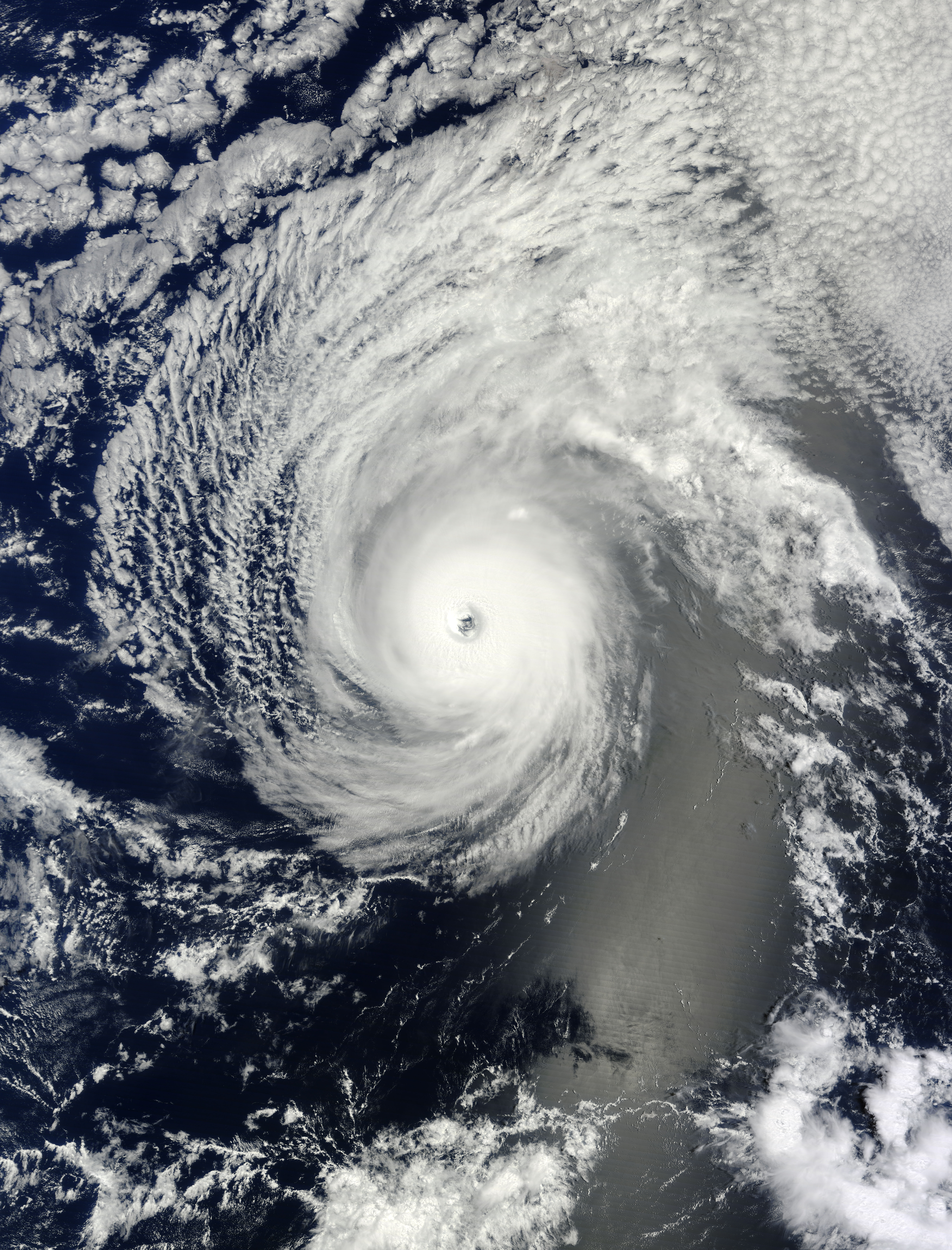 Category 4 Hurricane Iselle (09E) in the eastern Pacific Ocean